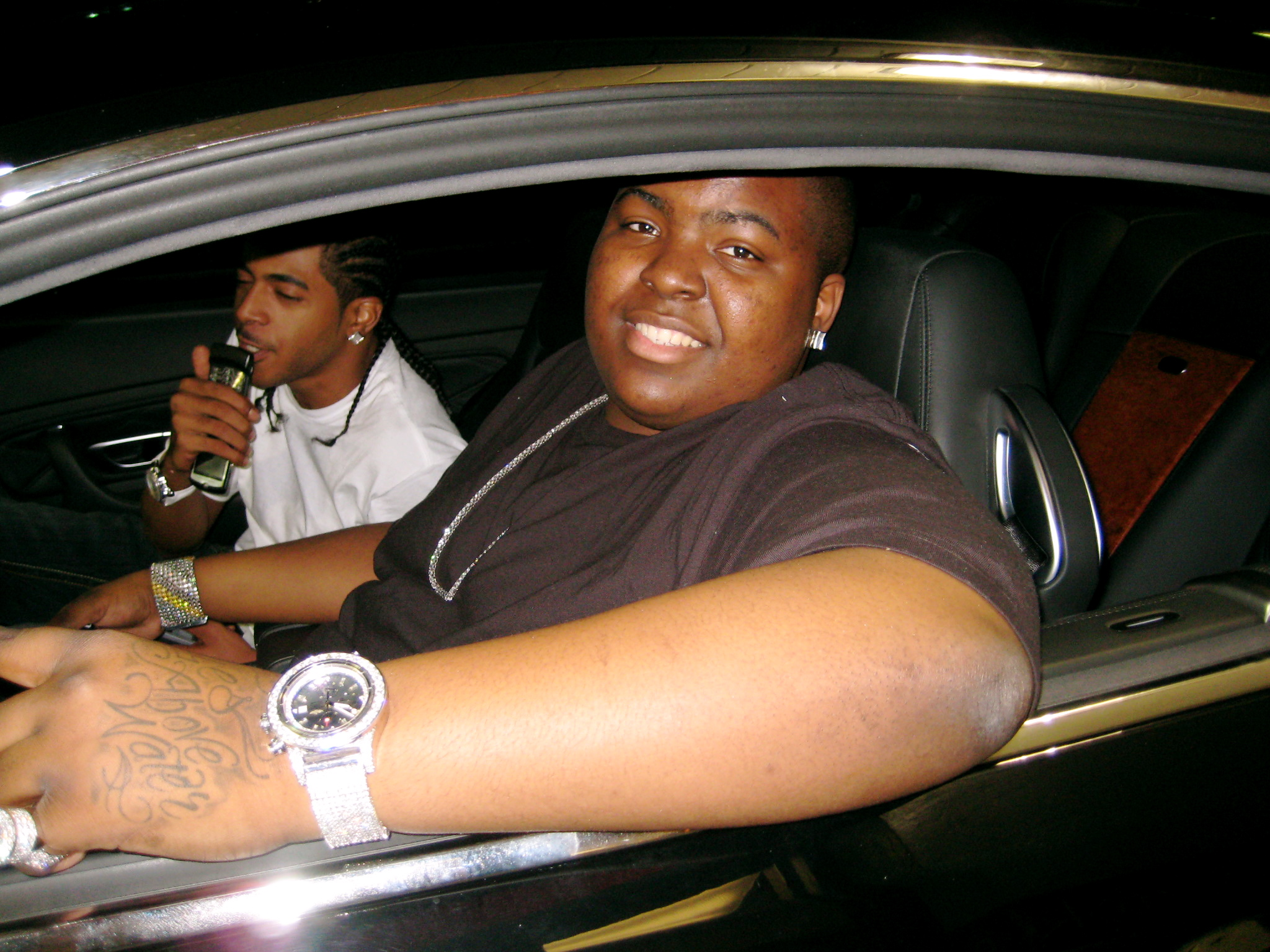 Sean Kingston at the drive-thru after a show